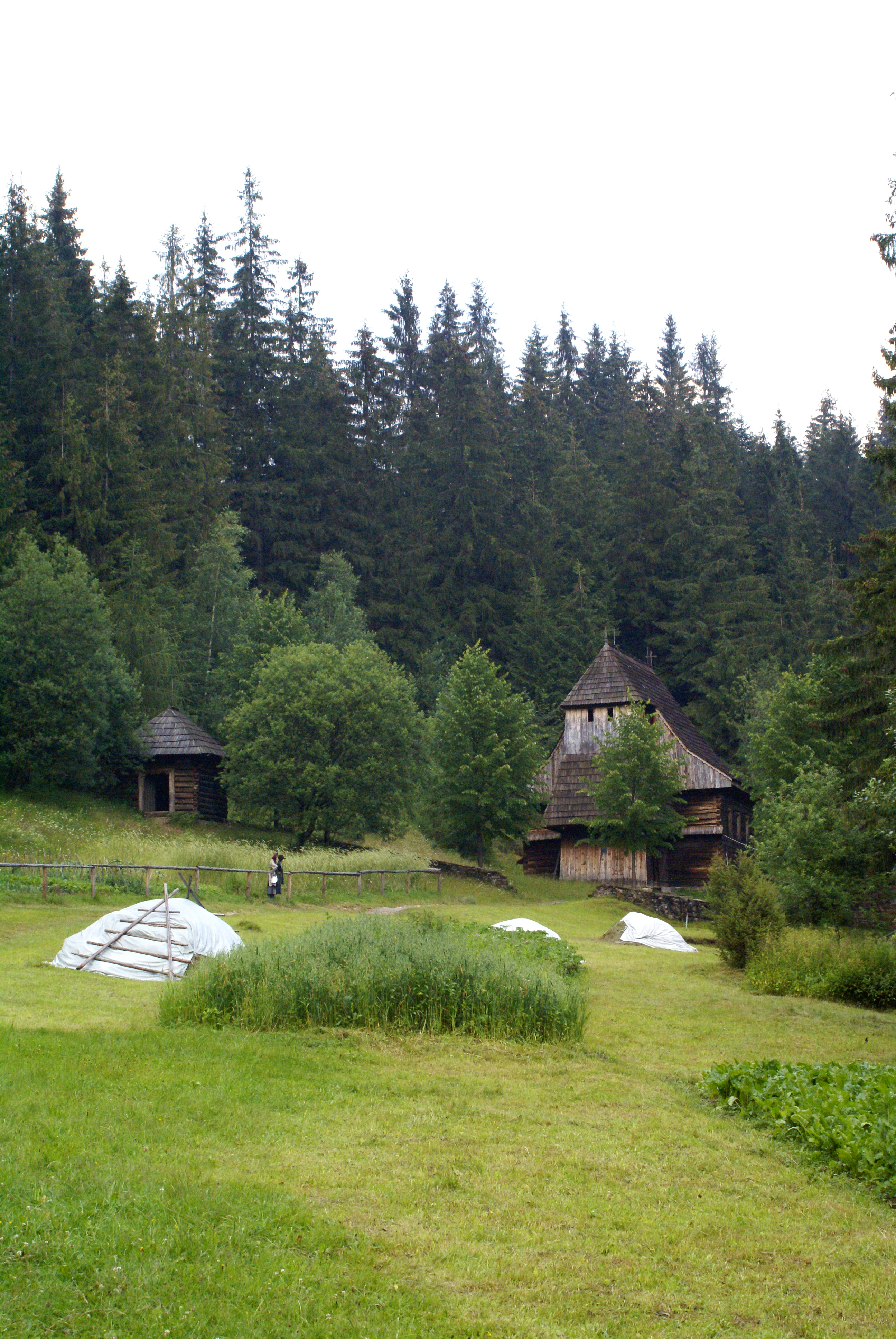 Open air museum of typical slovakian old Orava village, Zuberec, West Tatras, Slovak Republic